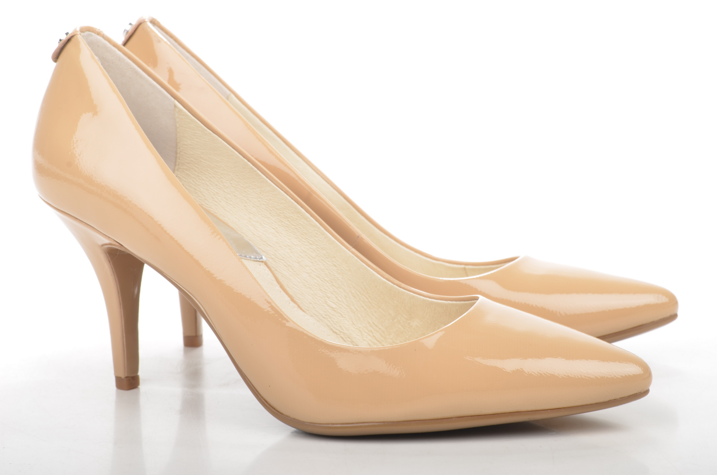 Details: Free to use, just give credit and mention SPERA and link to